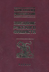 Zaveshanie_Rodzaevsky